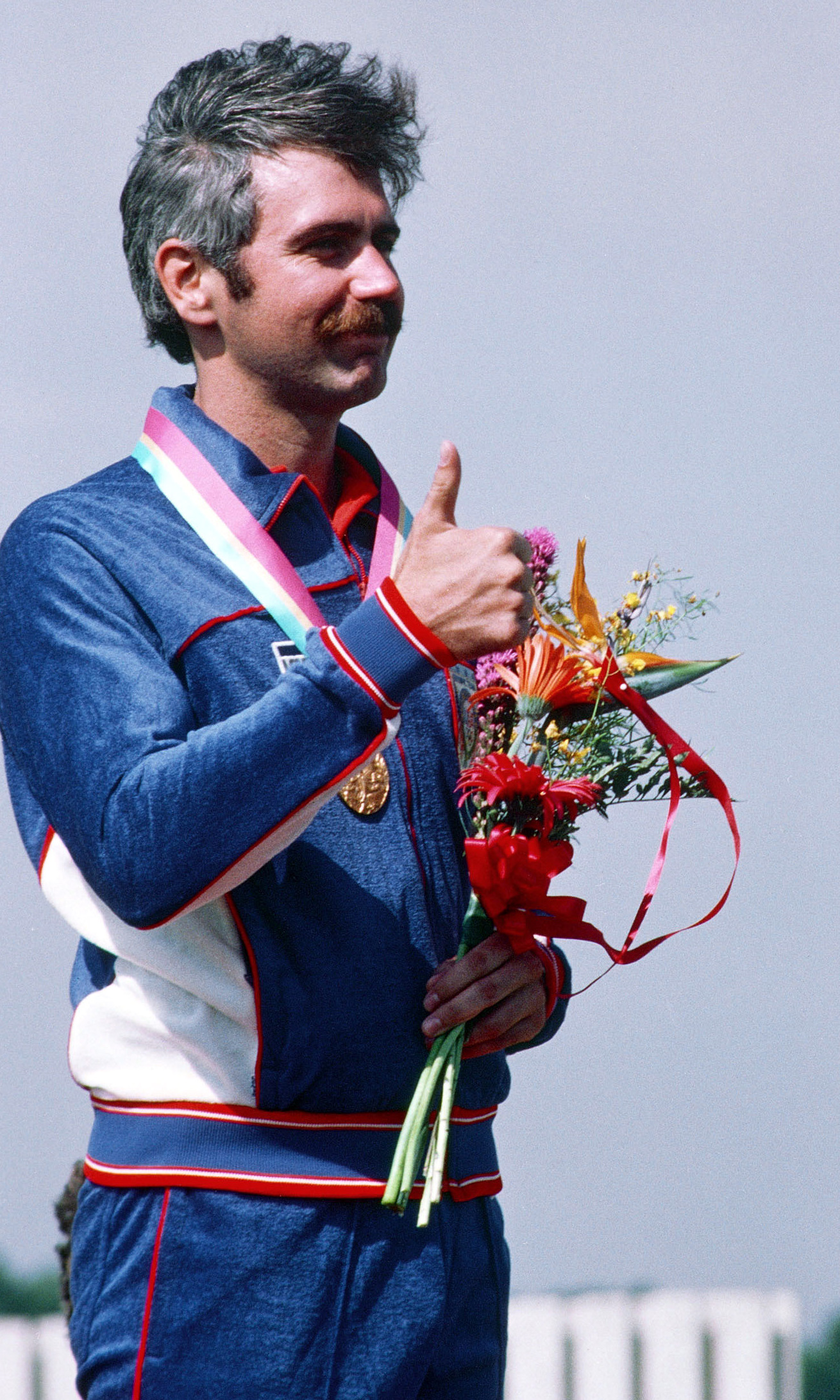 Army Captian Edward F. Etzel after receiving a gold medal in the small-bore rifle English competition at the 1984 Summer Olympics. He scored 599 points out of a possible 600. (original text)